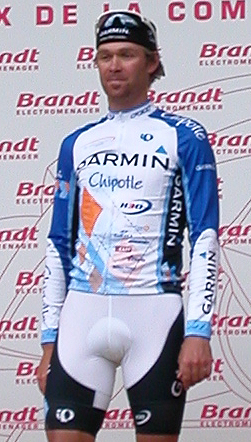 William Frischkorn with the comativity award at the arrival of the Tour de France 2008's 3rd stage in Nantes